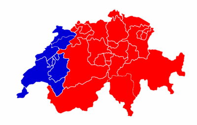 edited map of Switzerland that was developed to show the full extent of the Rhodanic Republic